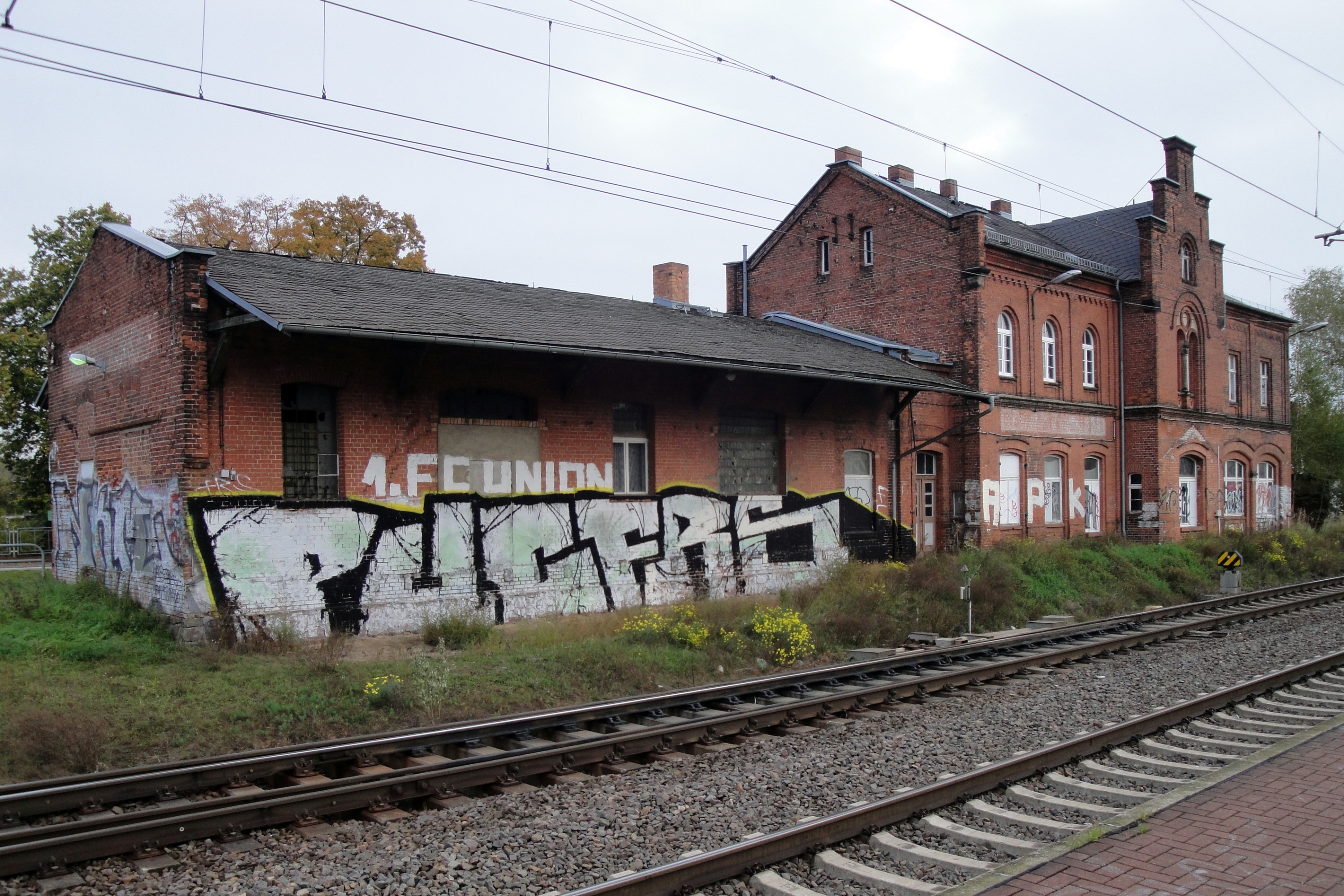 Railway station Wusterwitz